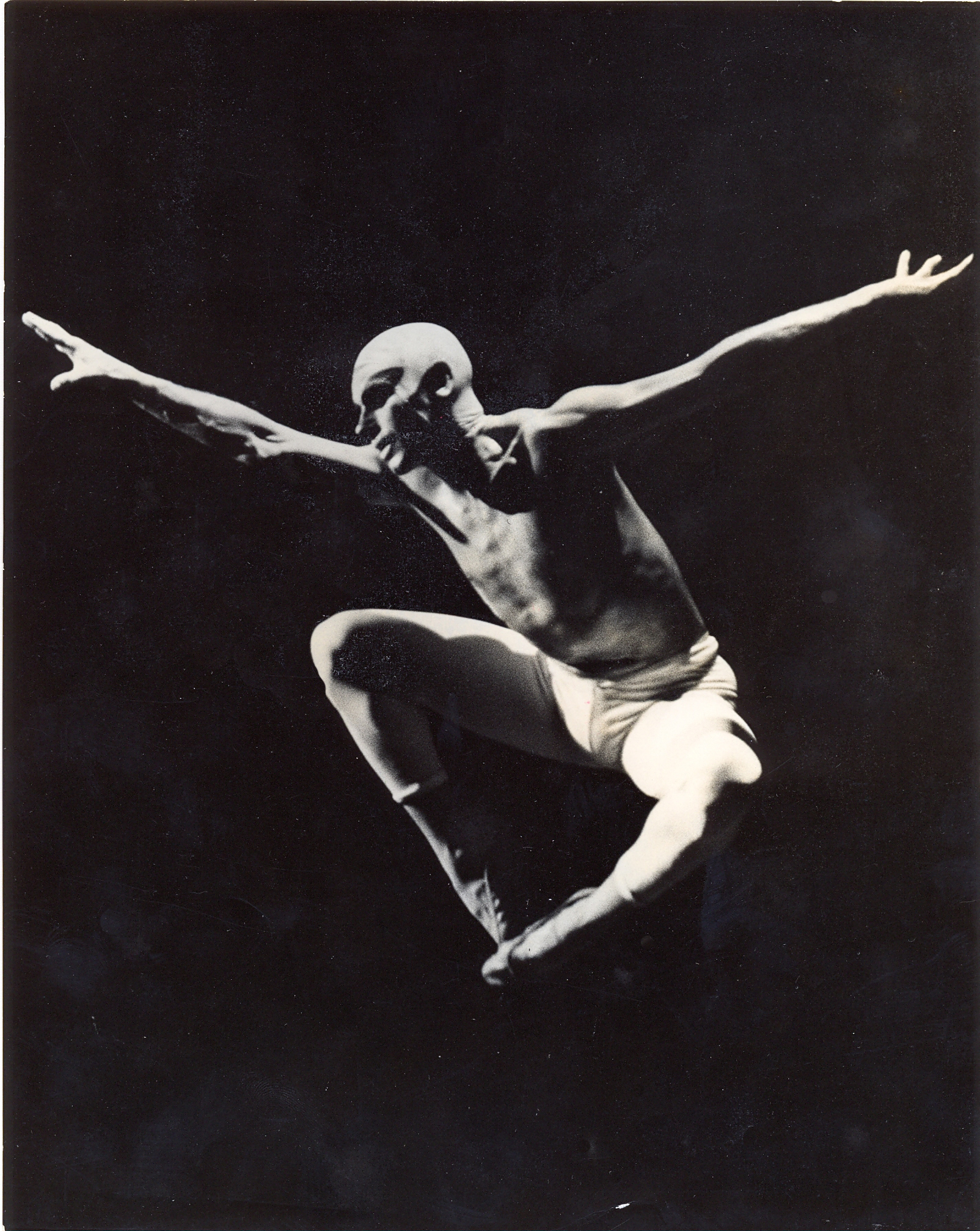 Germinal Casado in Cygne